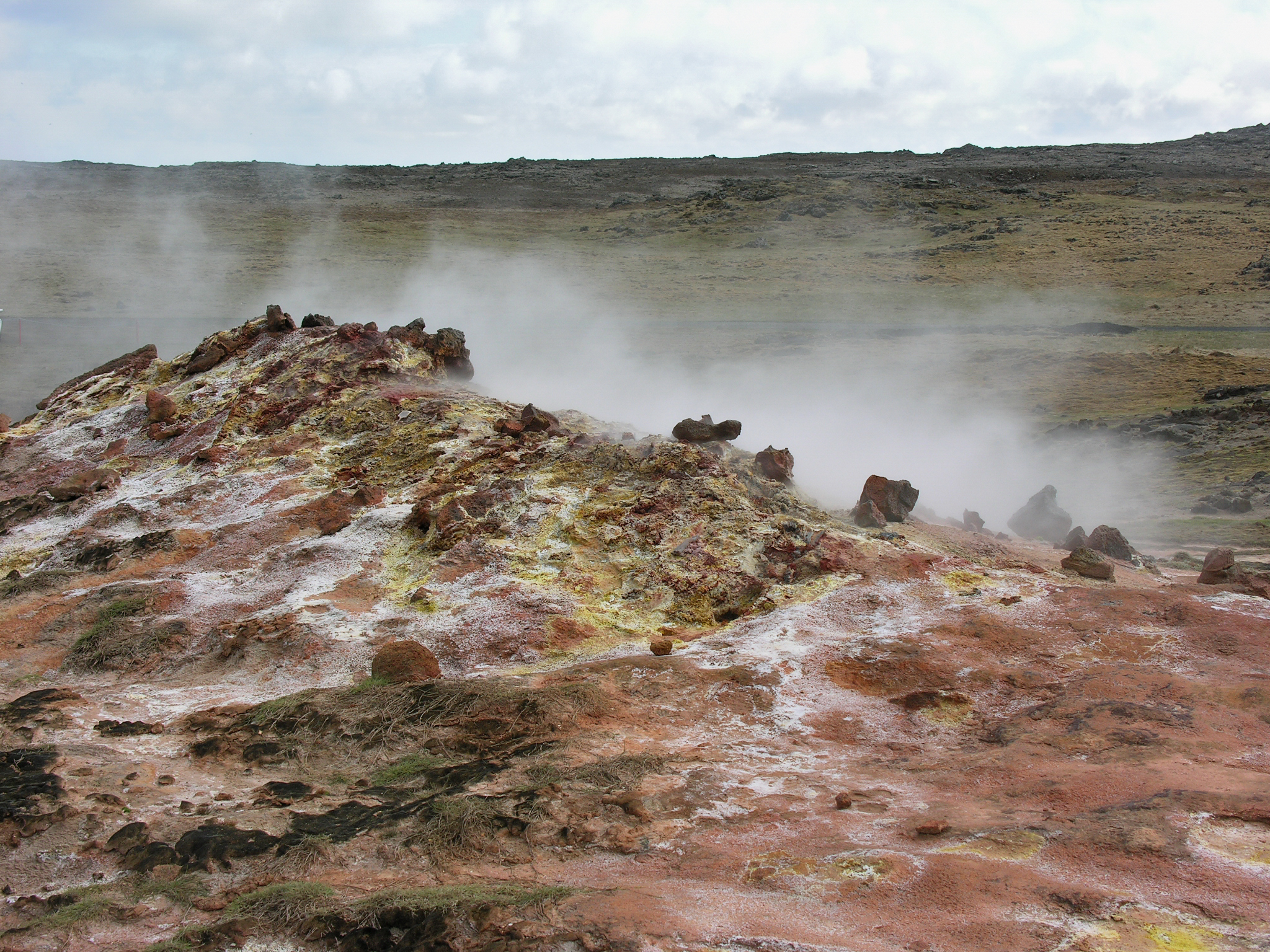 Iceland, Gunnuhver